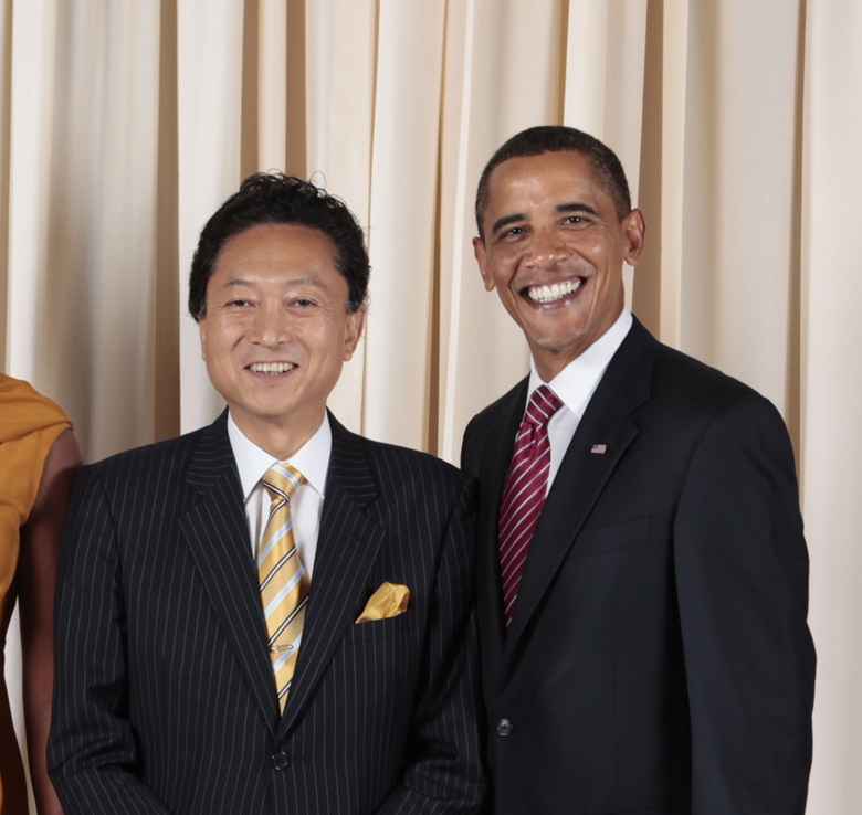 Yukio Hatoyama, Prime Minister, and Miyuki Hatoyama met Barack Obama, President, and Michelle Obama at the Metropolitan Museum of Art in New York City, New York State on September 23, 2009.